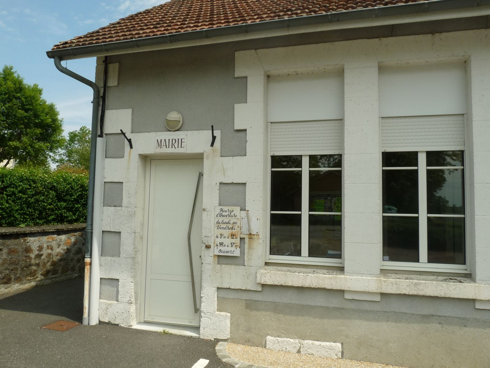 town hall